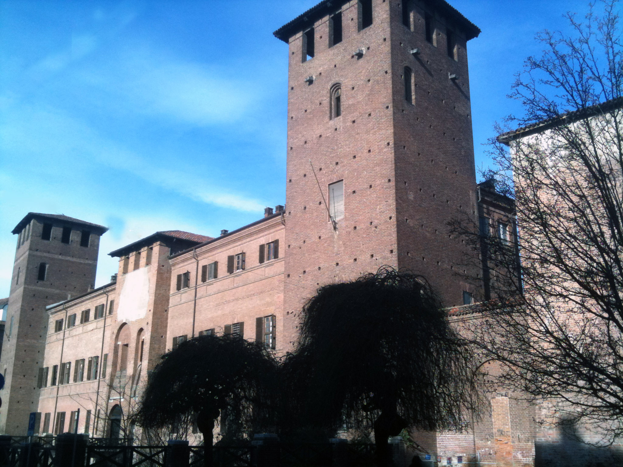 Castello Visconteo Vercelli